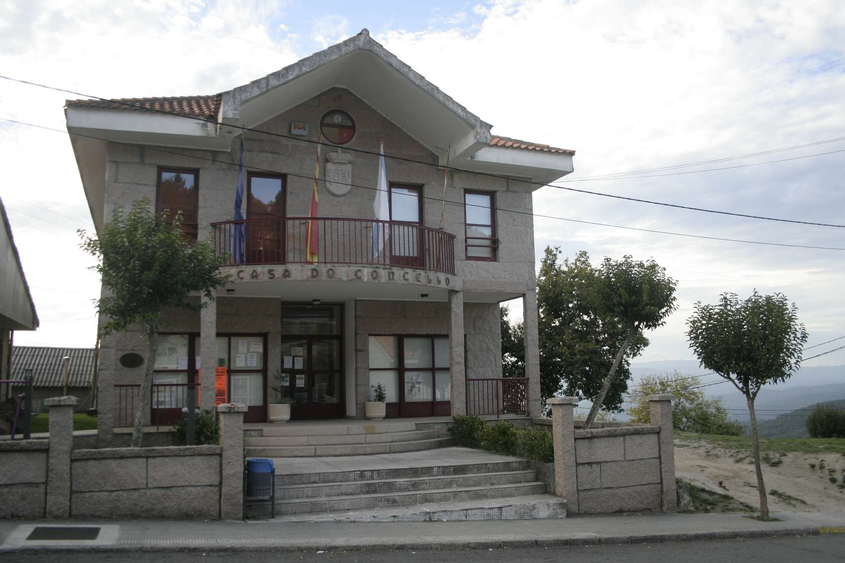 Town Hall in Quintela de Leirado (Spain)